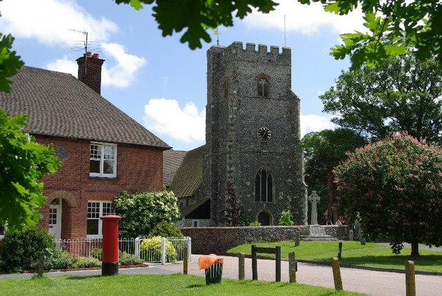 Village Church, Chartham Taken from the village green.